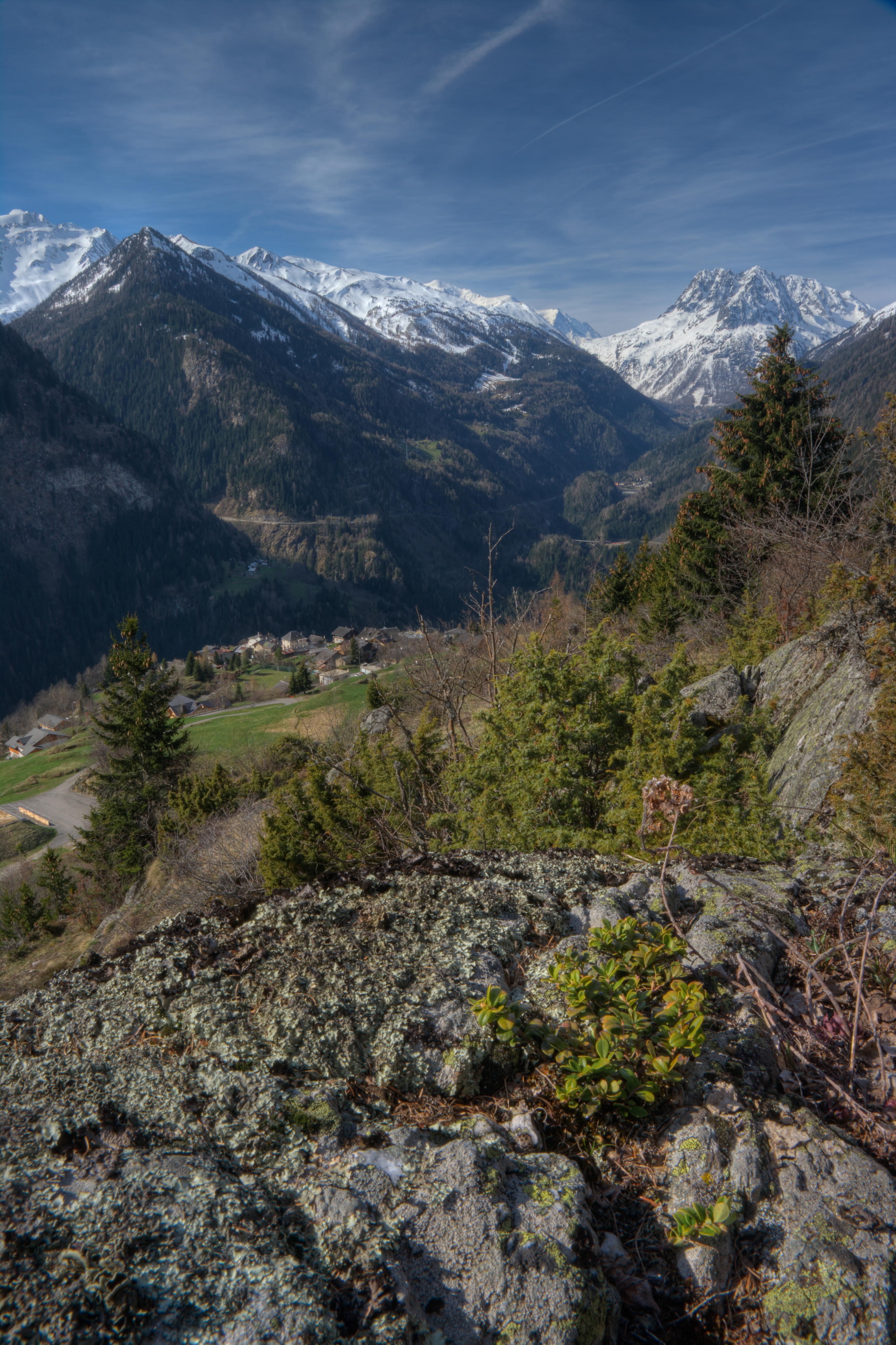 Photo(s) taken from above Finhaut in the Trient Valley